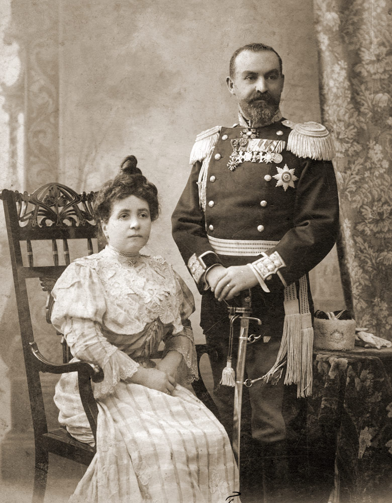 Kliment Boyadzhiev with his wife